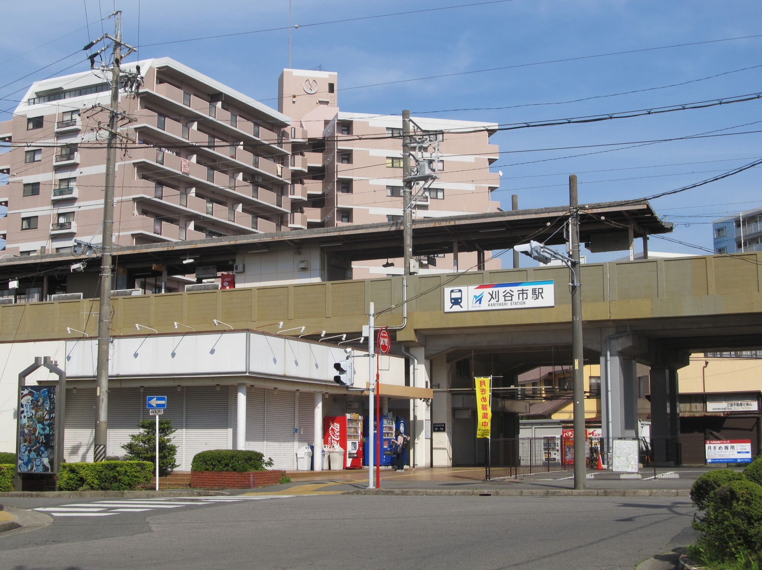 Nagoya Railroad Mikawa Line Kariyashi Station Gate (West)